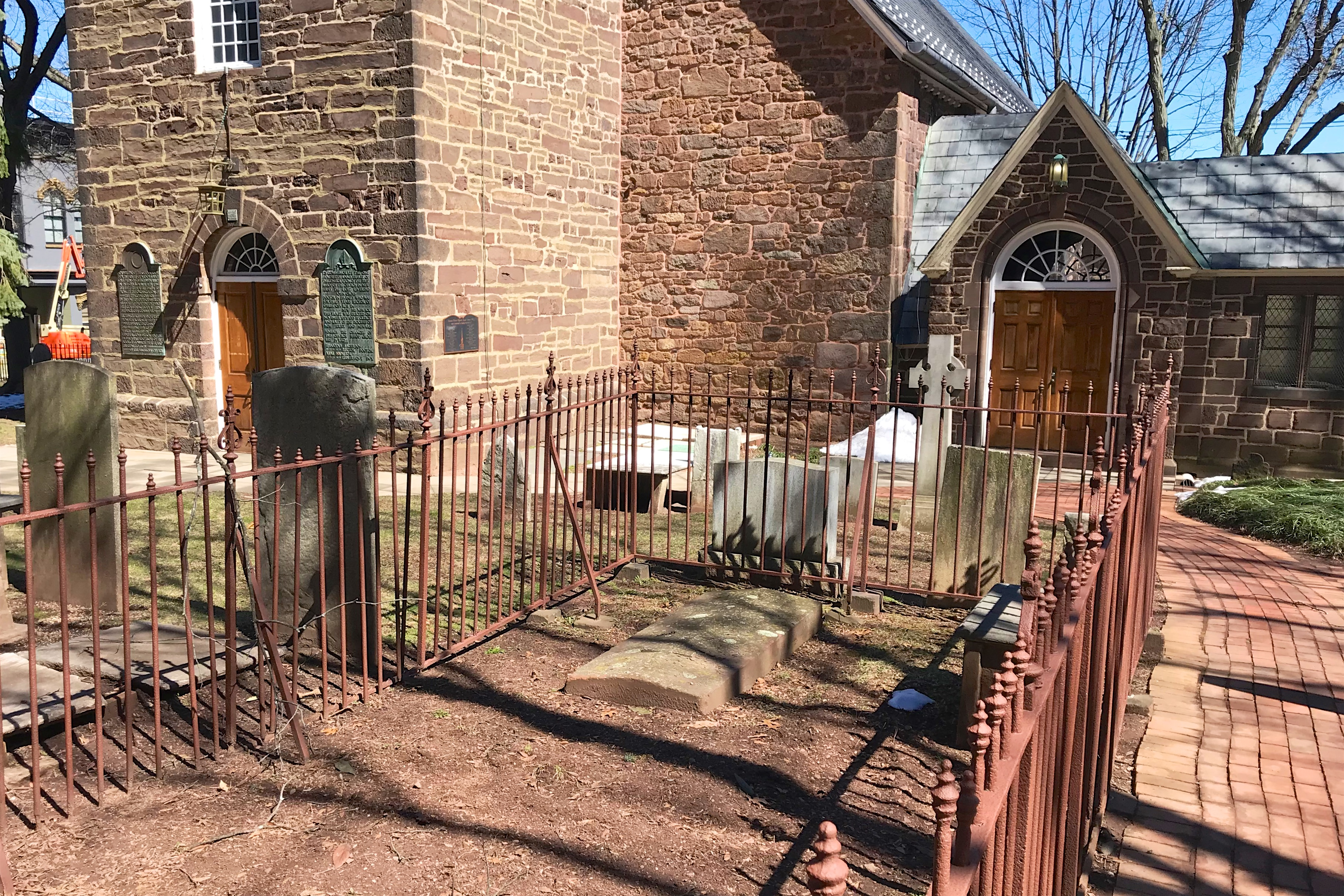 Graves of Abraham Beach and his daughter and grandson in the churchyard of Christ Church in New Brunswick, New Jersey.